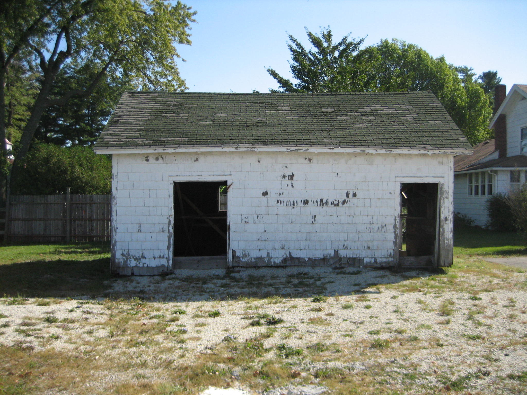 Ambler's Texaco Gas Station, Dwight, Illinois, USA, along historic U.S. Route 66. Icehouse.